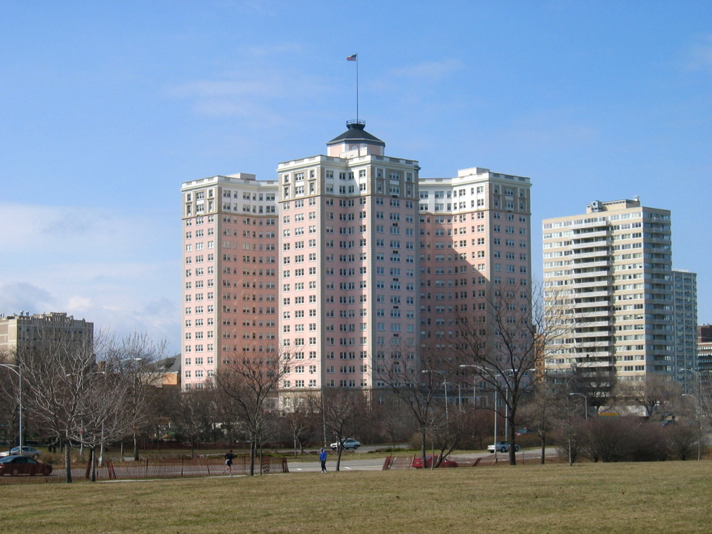 The Edgewater Beach Apartments, Chicago, Illinois. Built in 1927 as part of the Edgewater Beach Hotel. In the foreround Lake Shore Drive runs where Edgewater beach used to be.